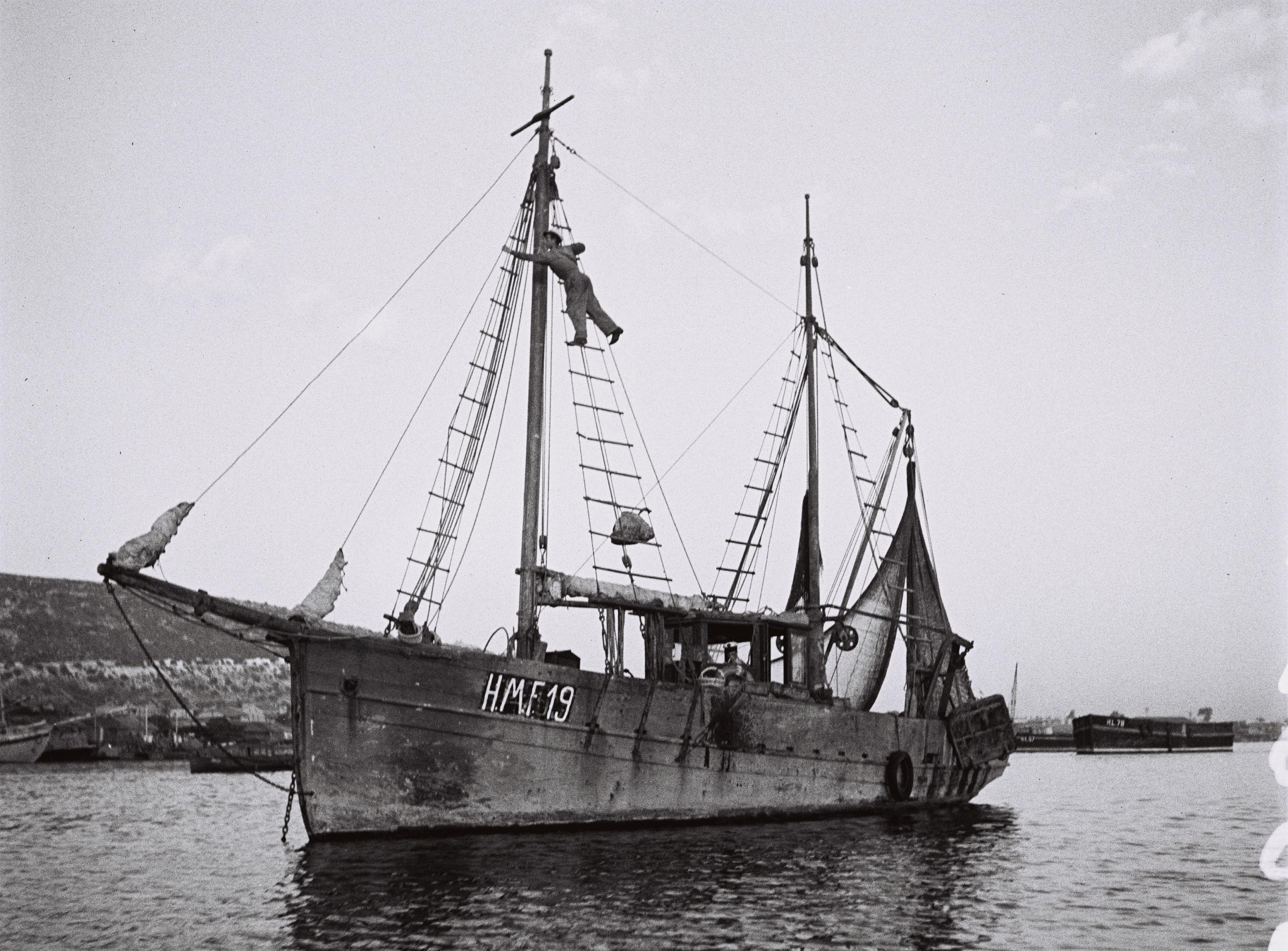 THE "NOON" FISHING BOAT BELONGING TO THE "NACHSHON" COMPANY IN HAIFA PORT. סירת הדייג "נון" של חברת "נחשון" בנמל חיפה.